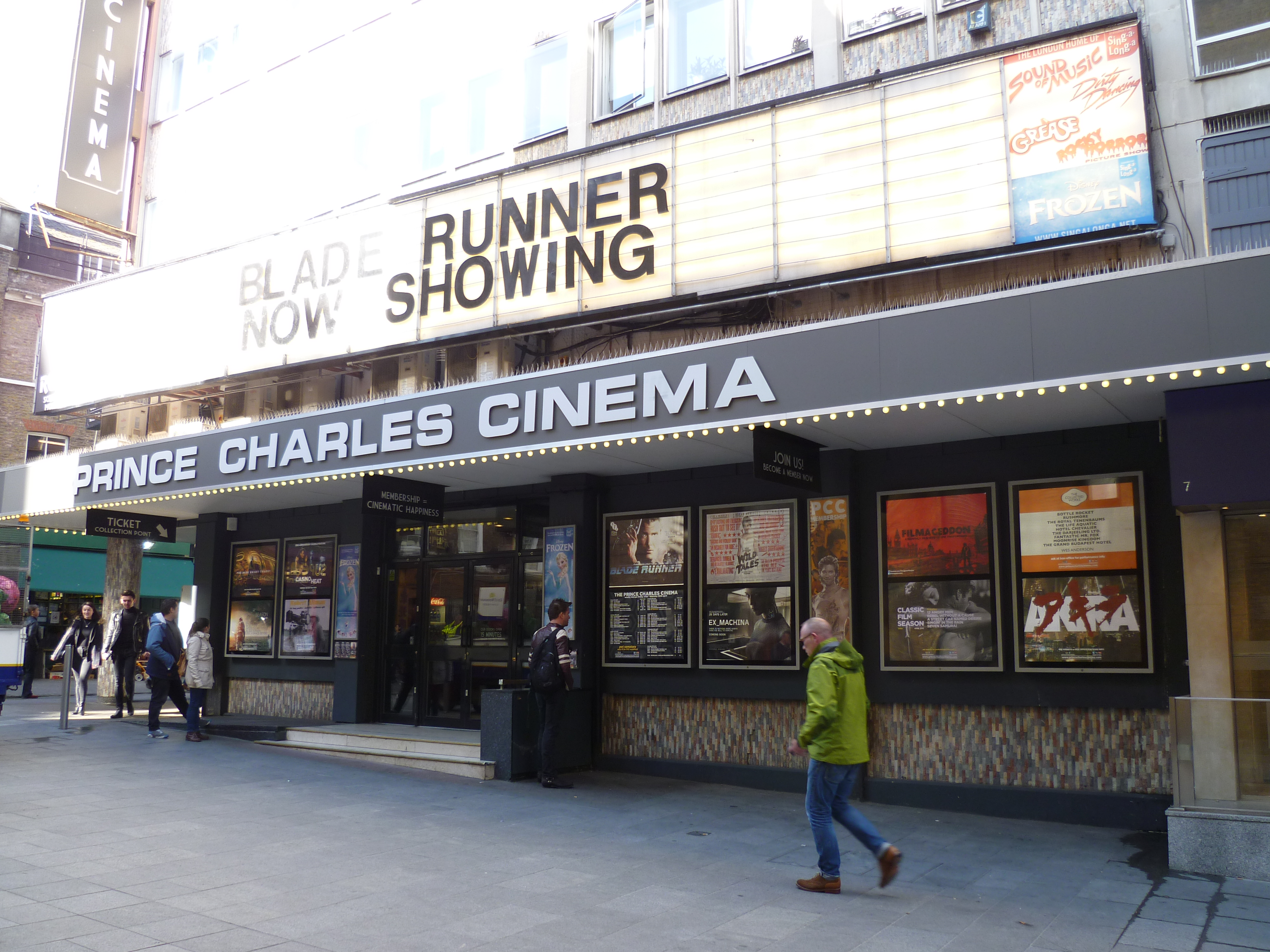 London